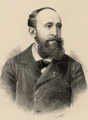 French writer, playwright, literary critic and historian Jules Claretie (1840-1913)